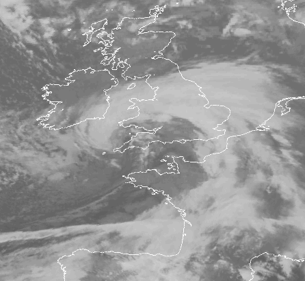 Storm Katie developing to the SW of England